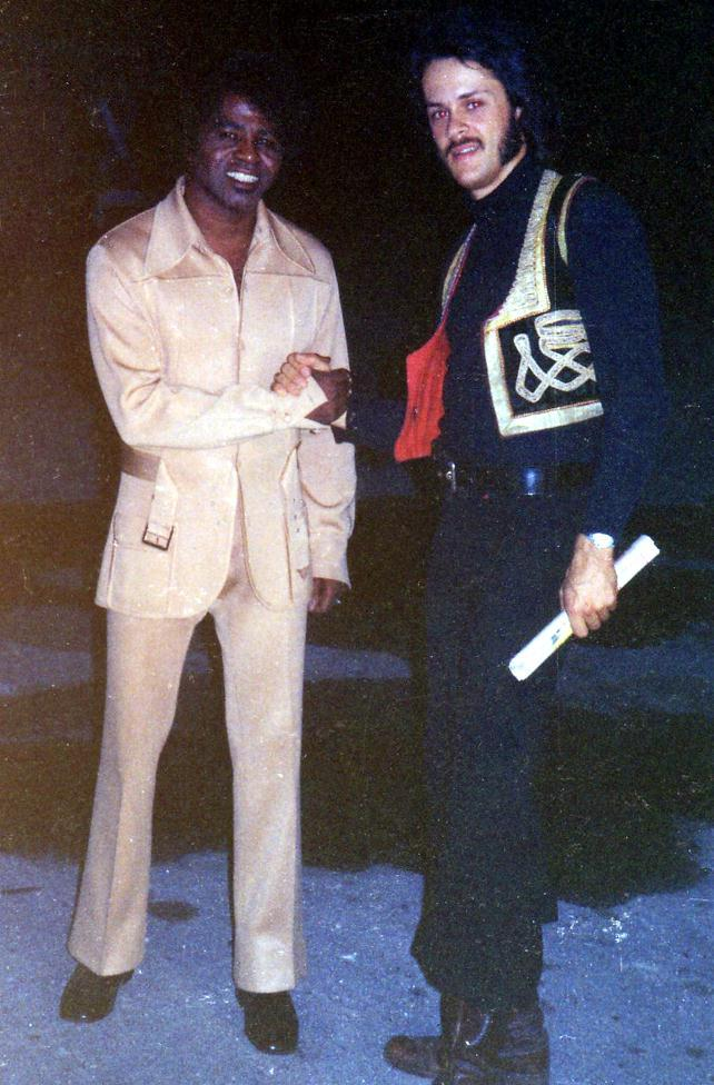 James Brown & Swedish DJ Lars Jacob after a Brown concert, as released by image creator Lars Jacob ProdPlace: Fort Homer Hesterly Armory, Howard Ave., Tampa, Florida